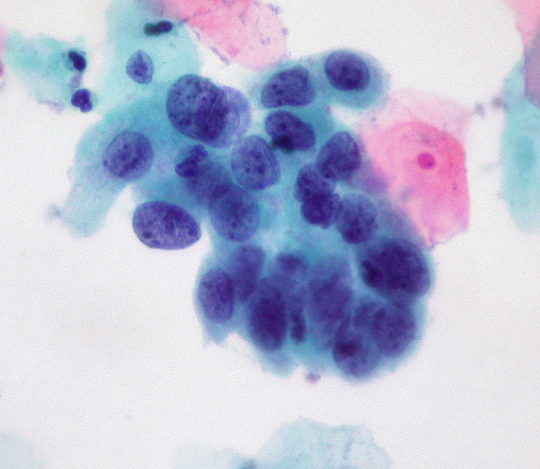 High-grade squamous intraepithelial lesion, abbreviated HSIL, also known as high-grade dysplasia. 24-year-old woman with normal conventional Pap in 2003. This one is a ThinPrep. If you're lucky, a case of high-grade dysplasia will be like this one, a conspicuous group of distinct dark cells with variation of nuclear size and shape, heavy chromatin, and high nuclear/cytoplasmic ratio. These can really stand out. If you're unlucky, the cells of HSIL can be infrequent, individual, and bland-appearing. Paradoxically, it's easier to overlook a high-grade lesion in ThinPrep than a low-grade one, and the most serious lesions of all--invasive carcinomas--are the easiest of all to miss. See also File:Low-Grade SIL with HPV Effect.jpg - micrograph of low-grade squamous intraepithelial lesion (LSIL).